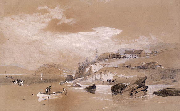 A watercolor painting of Fort George, better known as Fort Astoria, established in 1810 at the mouth of the Columbia River. Its name was changed to Fort George while under British ownership, 1813-1818.